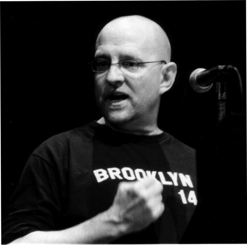 David R. White Hosting (and Exhorting) the Bessie Awards